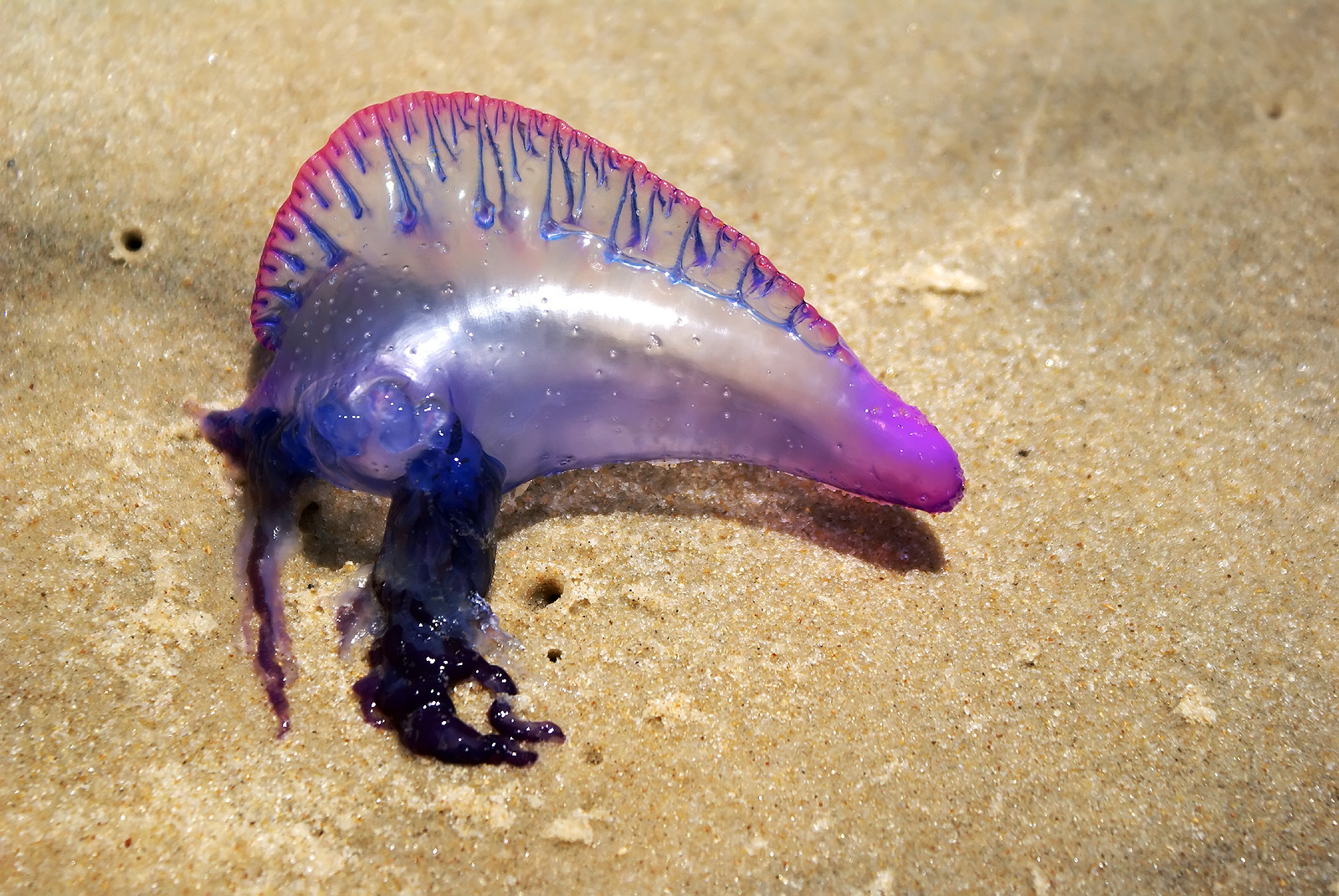 Portuguese Man o' War (Physalia physalia) at the Beach of Cumbuco/Brasil